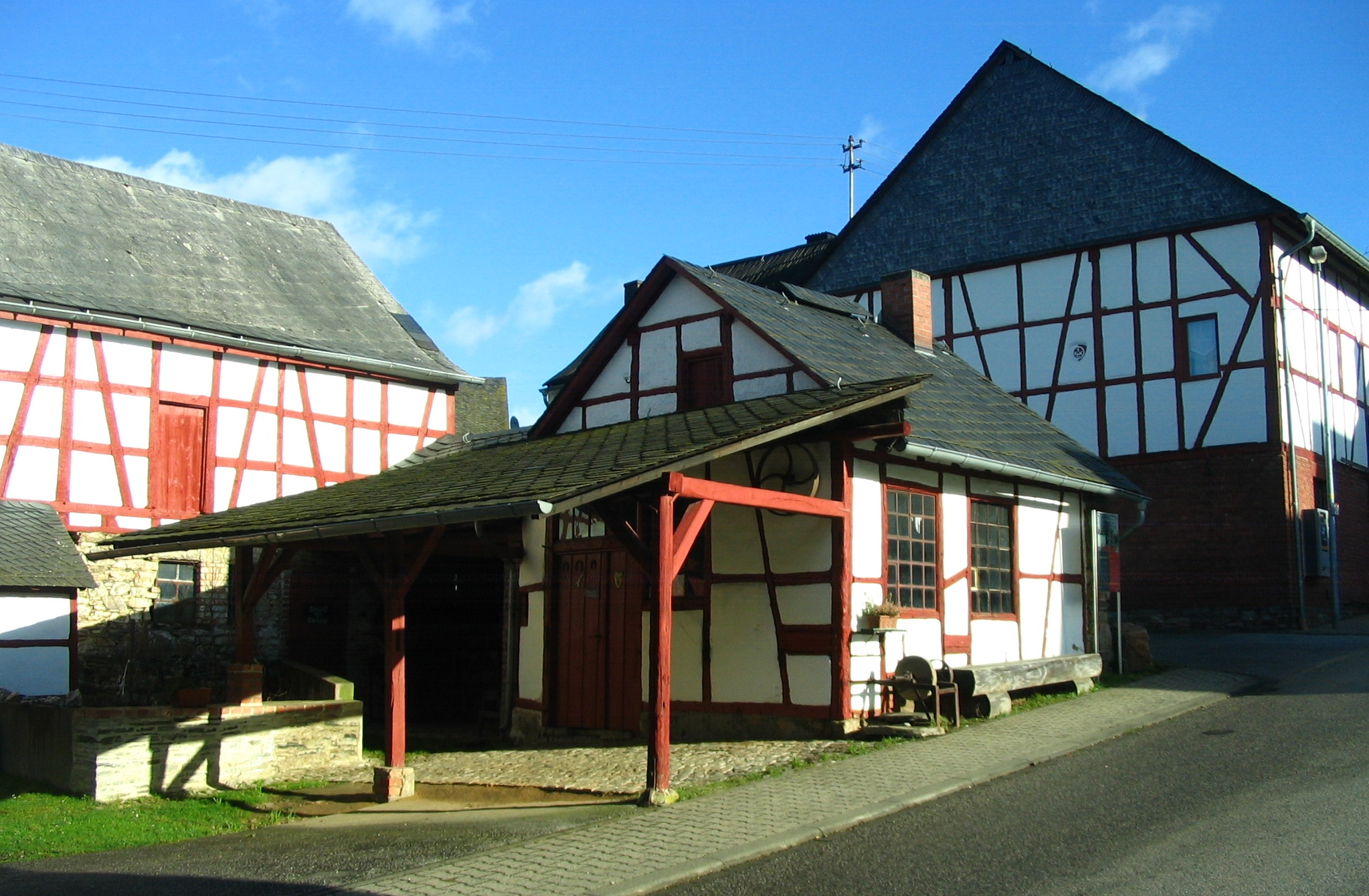 The "Simon family's smithy" (as featured in Edgar Reitz's Heimat film trilogy) in the Hunsrück village of Gehlweiler